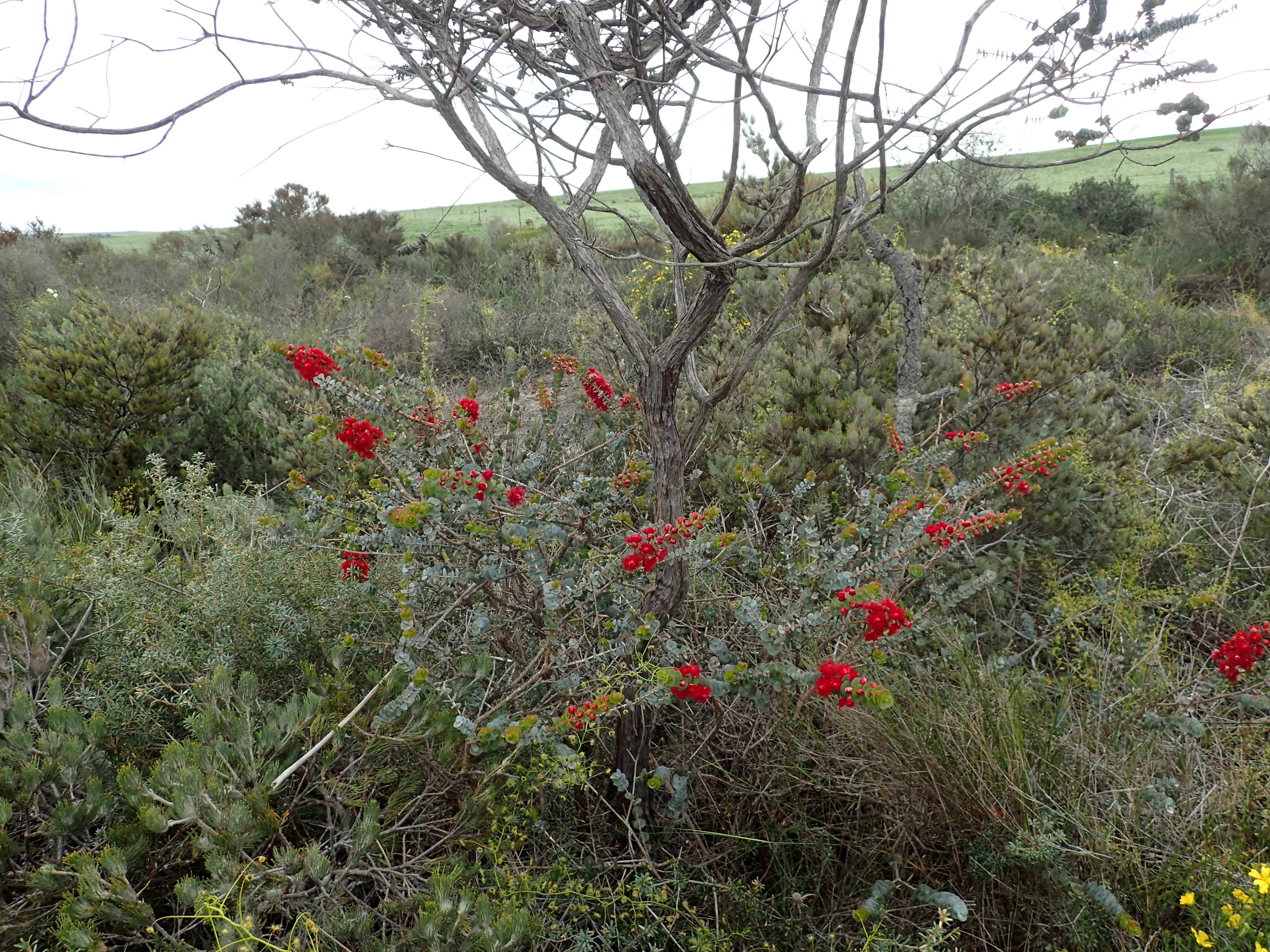 Verticordia grandis growing about 600m along Watheroo Road near Badgingarra